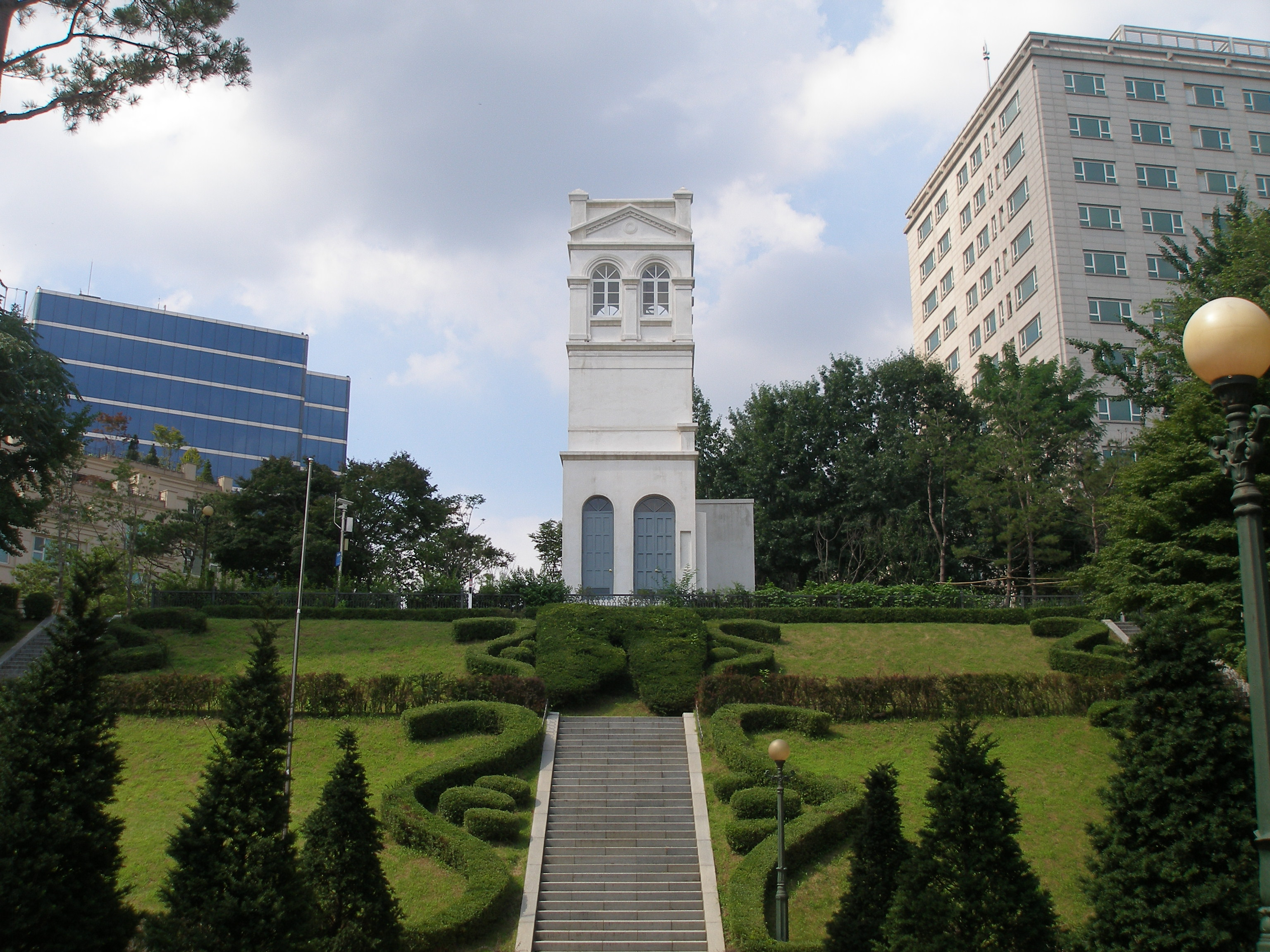 Old Russian Ambassy in Jeongdong hill, Seoul, Korea